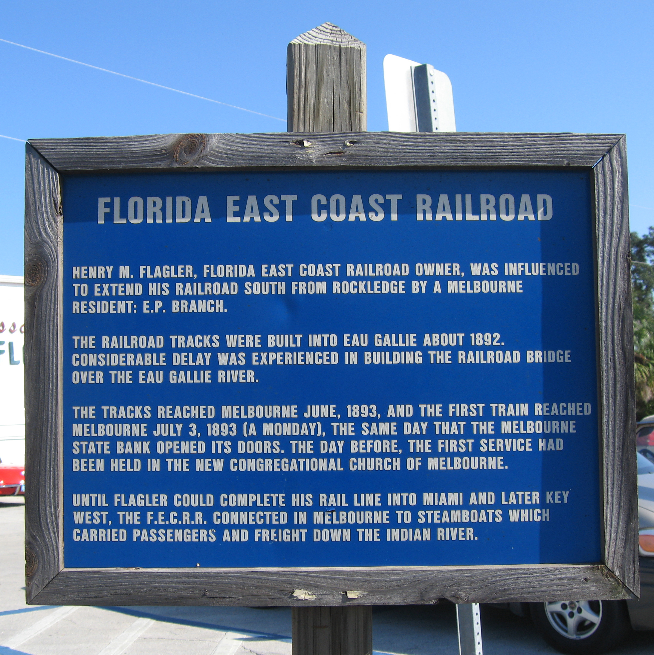 Historical marker at the site where the Florida East Coast Railroad passes through Historic Downtown Melbourne. The marker is located along the train track where it intersects with East New Haven Avenue near Depot Drive in Melbourne, Florida.